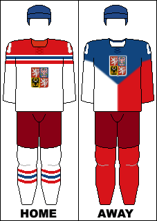 The home and away jerseys of the Czech national ice hockey team with the Czech coat of arms in the middle, as used at the 2014 Winter Olympics in Sochi.